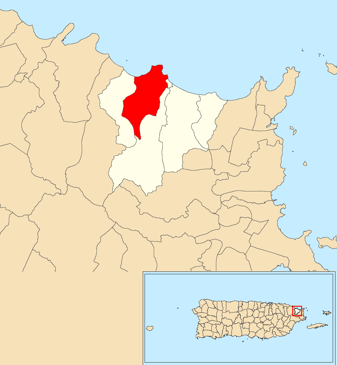 Mata de Plátano, Luquillo, Puerto Rico locator map